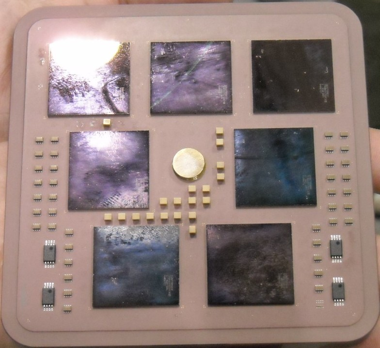 A MultiChip Module (MCM) that can be found inside a System z10 Enterprise Class mainframe.